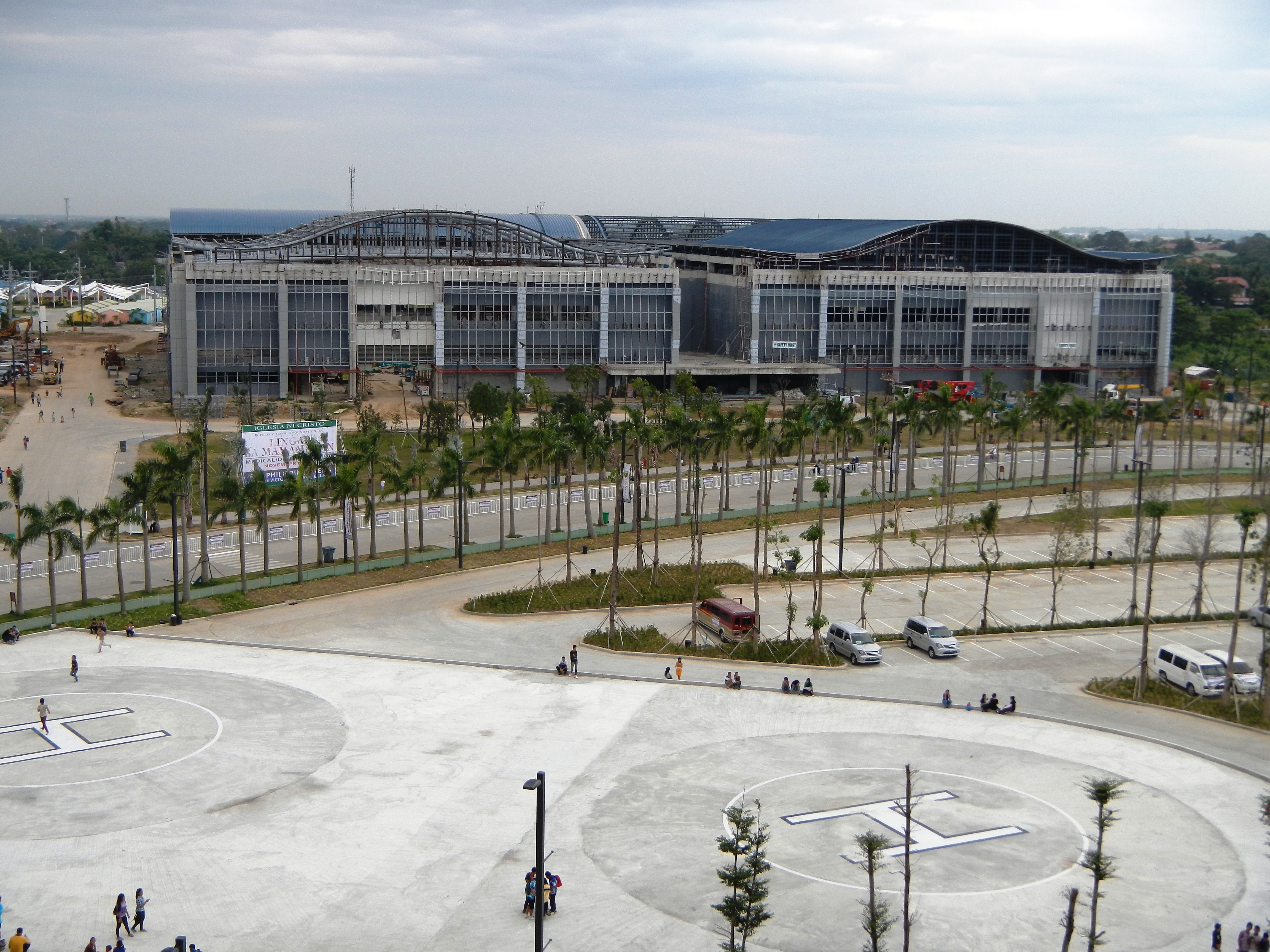 Philippine Sports Center Eduardo V. Manalo Eduardo Villanueva Manalo, as video-televised in Giant screen of the Lingap Pamamahayag sa Mamamayan Medical, Dental Mission of November 8, 2014 - Philippine Arena beside the Philippine Sports Stadium of the and located in and part of the - Ciudad de Victoria, Iglesia Ni Cristo - 140-hectare tourism enterprise zone in Barangays Duhat, Igulot, Bolacan of Bocaue,_Bulacan and Tabing Bakod or Santo Tomas and Mahabang Parang of Santa Maria, Bulacan - Sony CineAlta CineAlta Sony's CineAlta 24P HD attached with Fujinon lensesused in video of the Event.